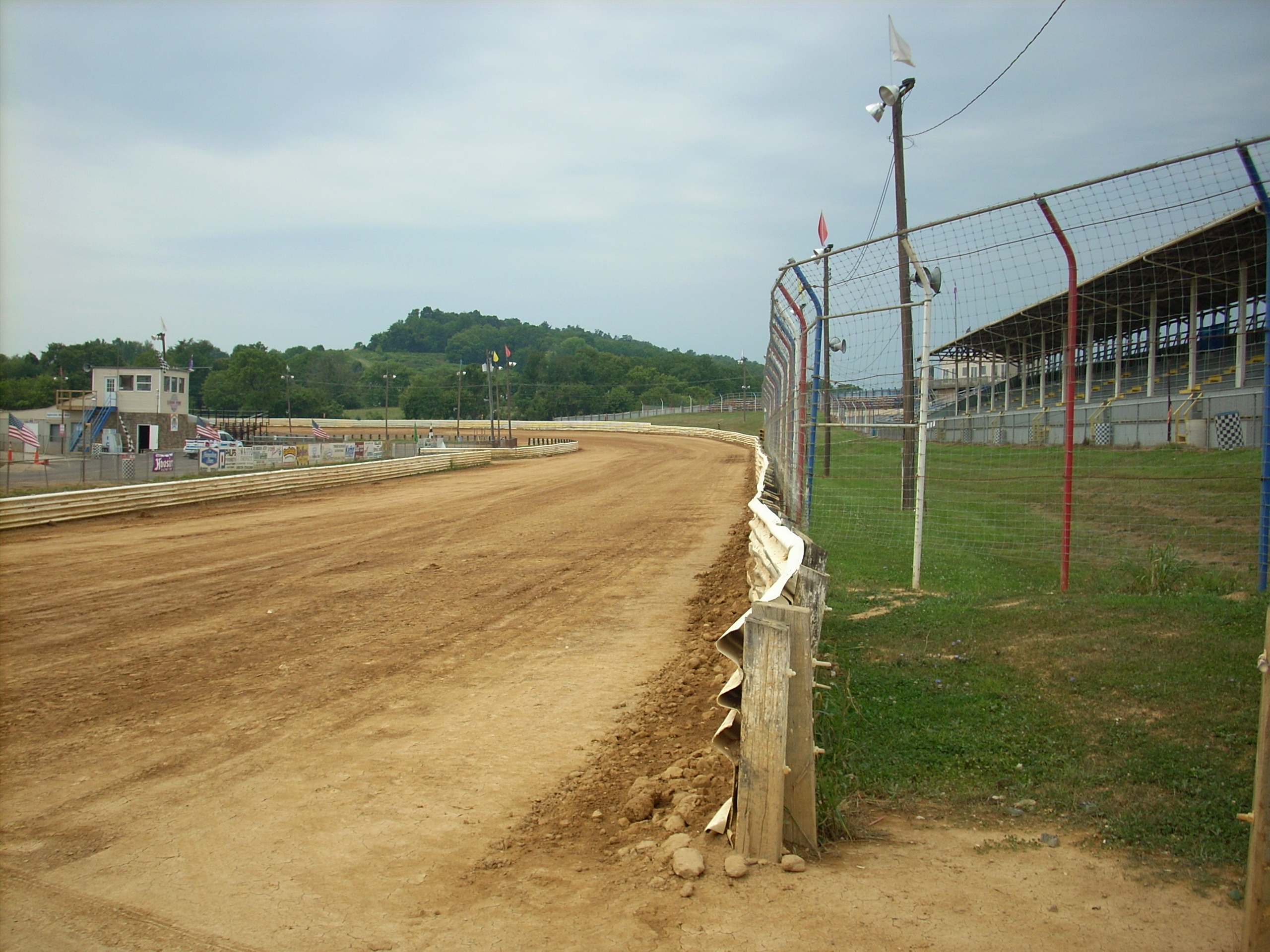 Frontstretch and grandstand of Selinsgrove Speedway in Penn Township, Snyder County, Pennsylvania